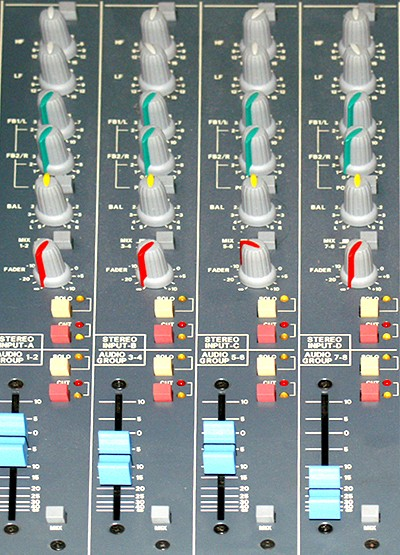 Image of sub-groups on a mixing console. This picture was taken by Mike Sorensen on April 10, 2007 and donated to public domain.